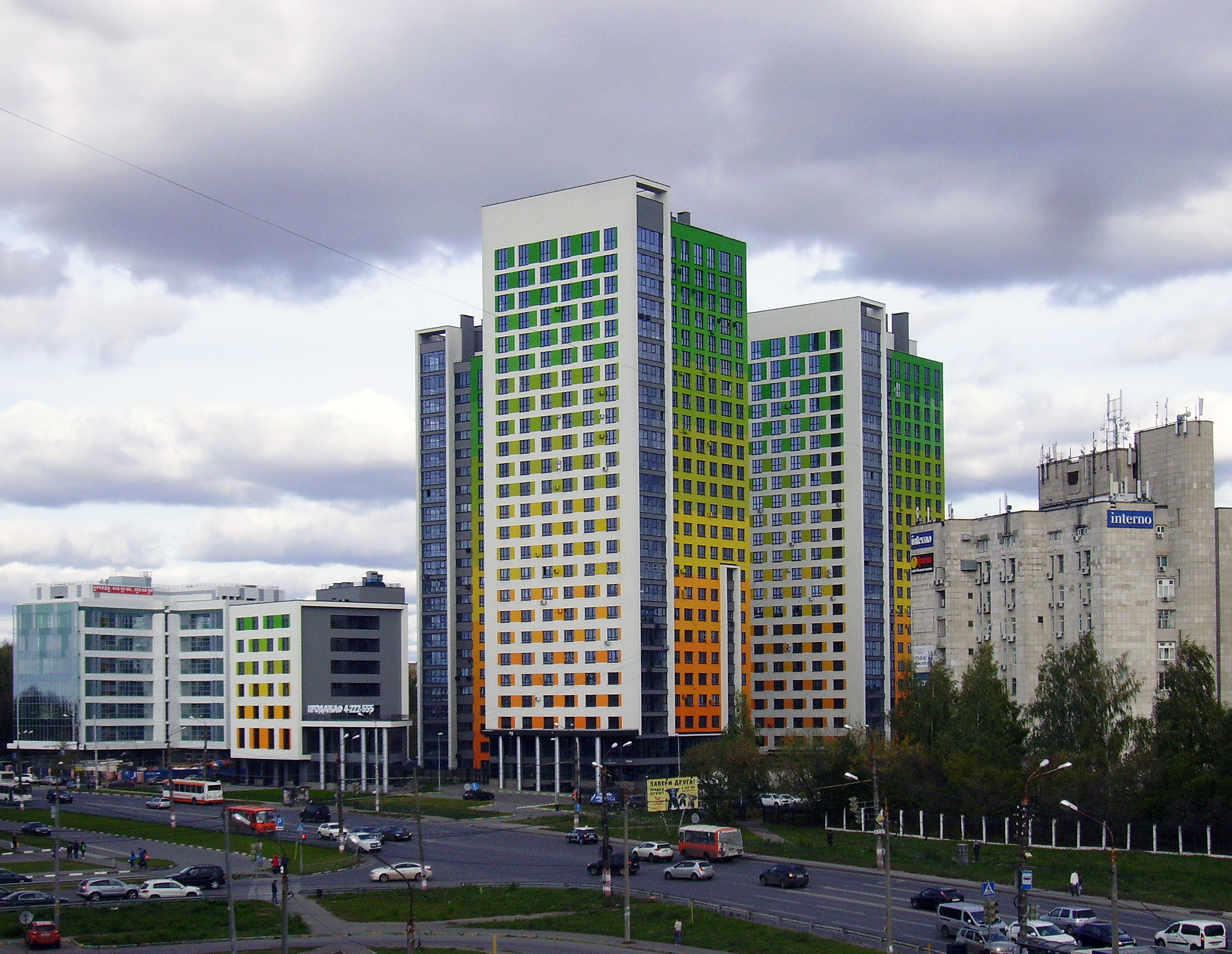 Nizhny Novgorod. At corner of Rodionov & Delovaya Streets. The Maxima apartment complex.